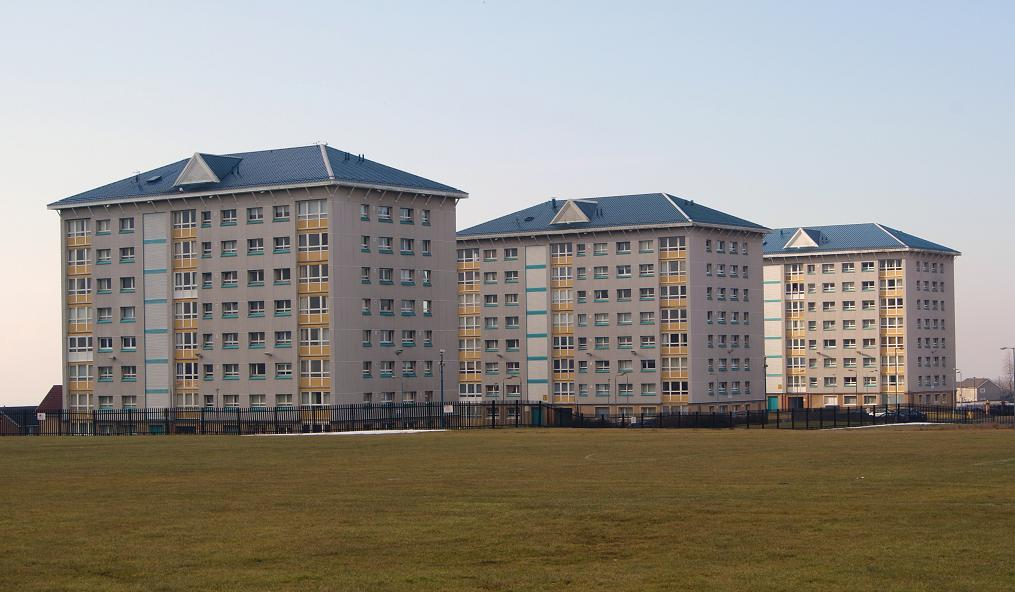 The Holehills Flats Left to right: Pentland Court, Cheviot Court and Merrick Court.